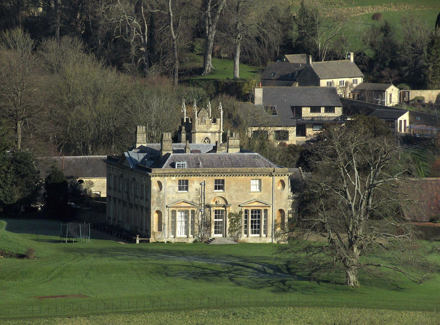 Combe Hay (3)